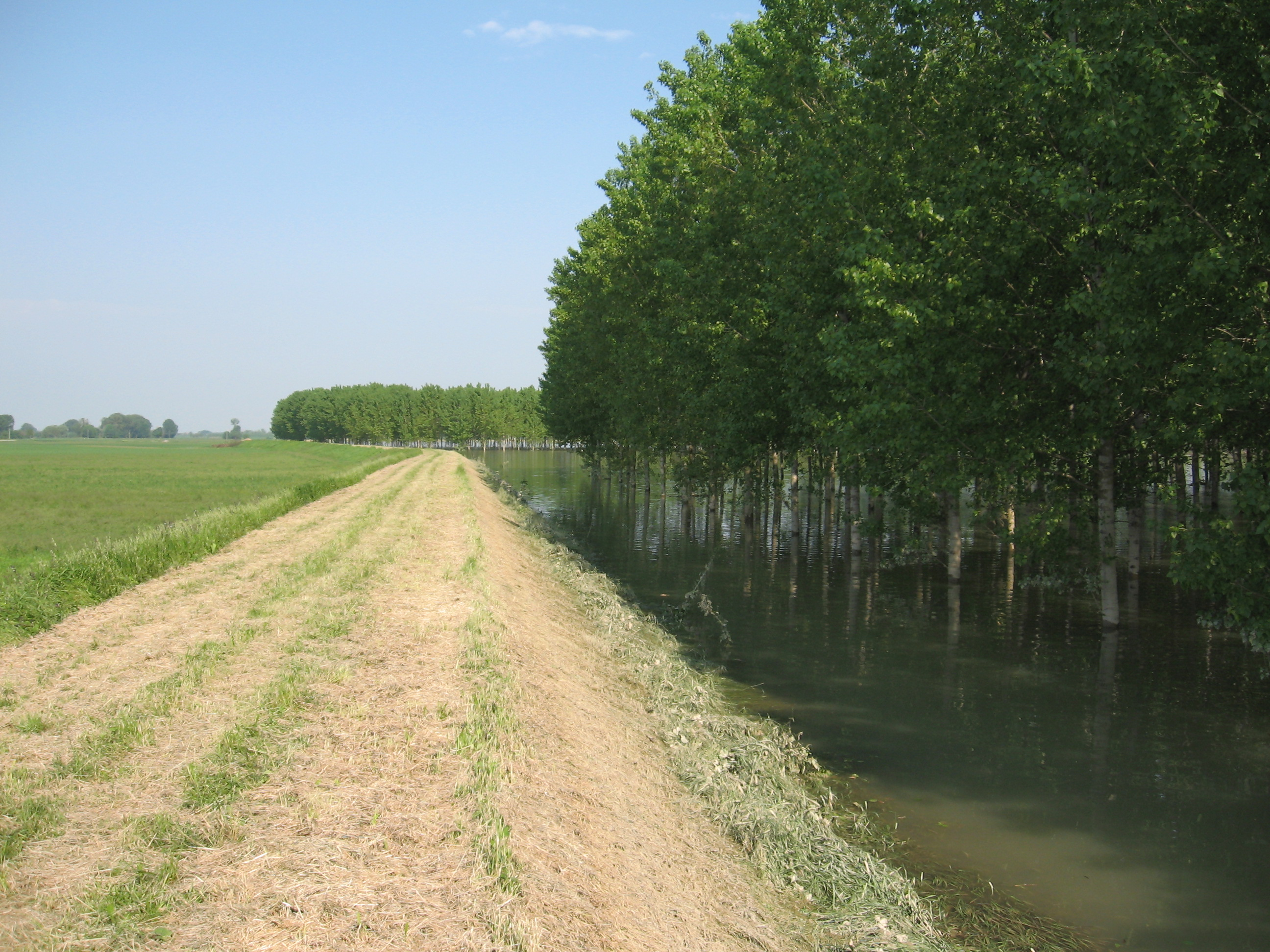 Po river flood on a poplar fields